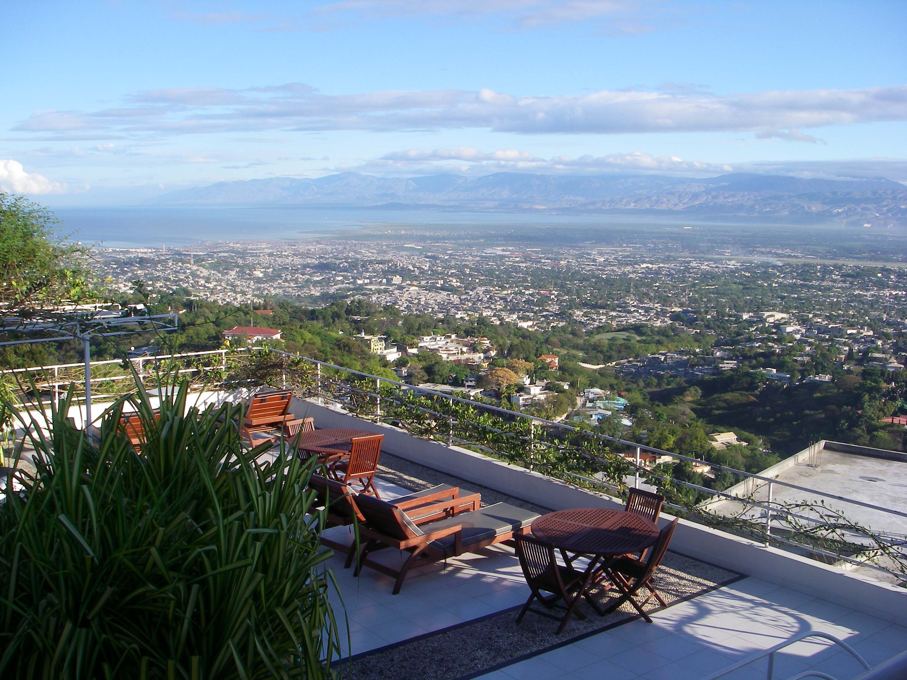 View of Port-au Prince from Hotel Montana, which was destroyed by the 2010 Haiti earthquake.